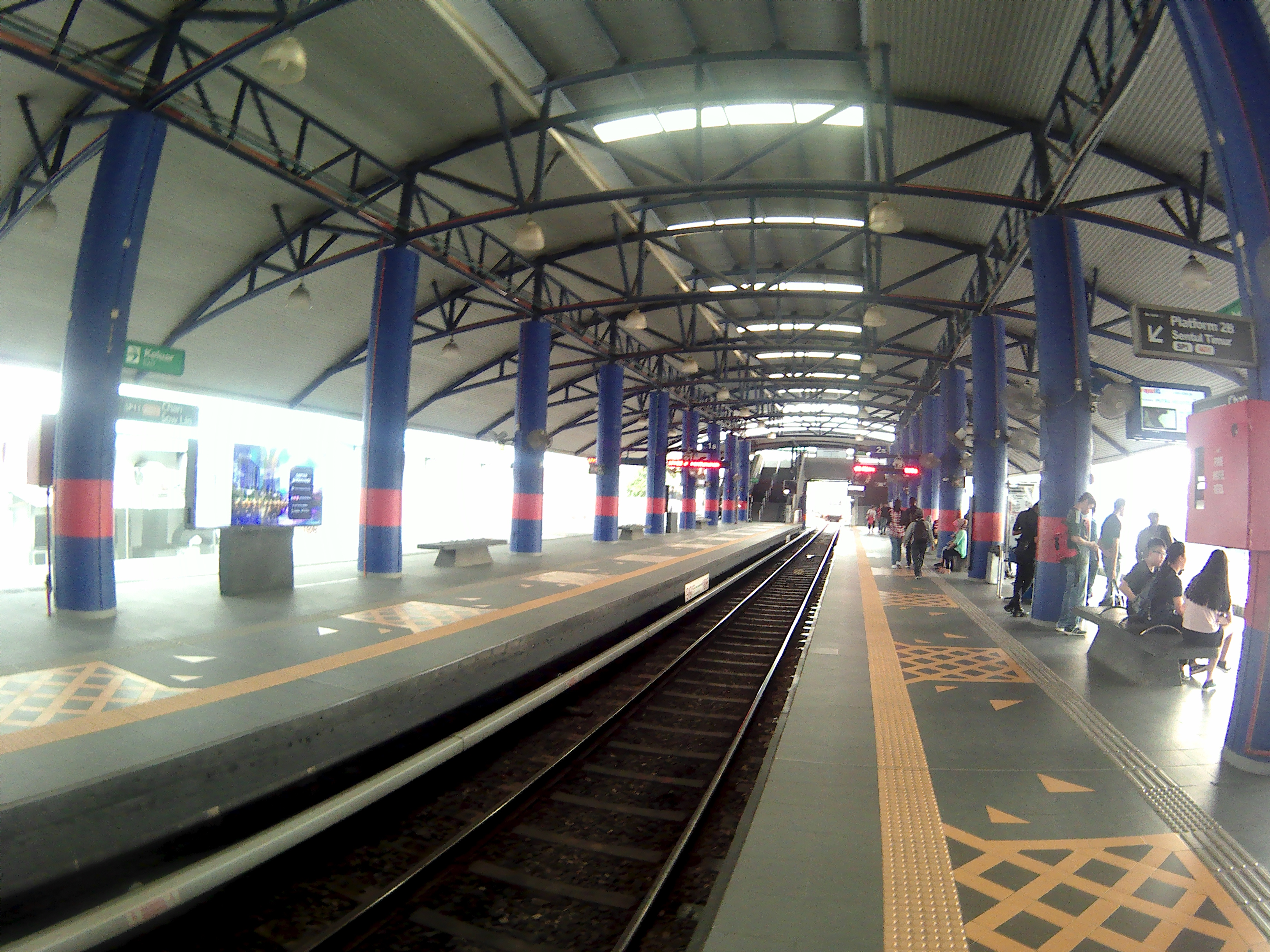 Chan Sow Lin LRT station platform